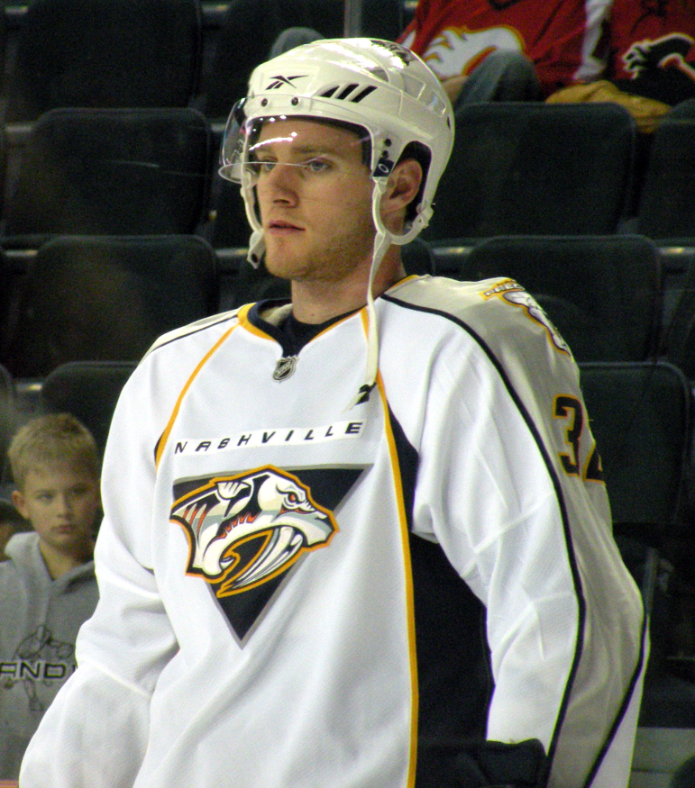 Nashville Predators forward Cody Franson prior to a National Hockey League game against the Calgary Flames.